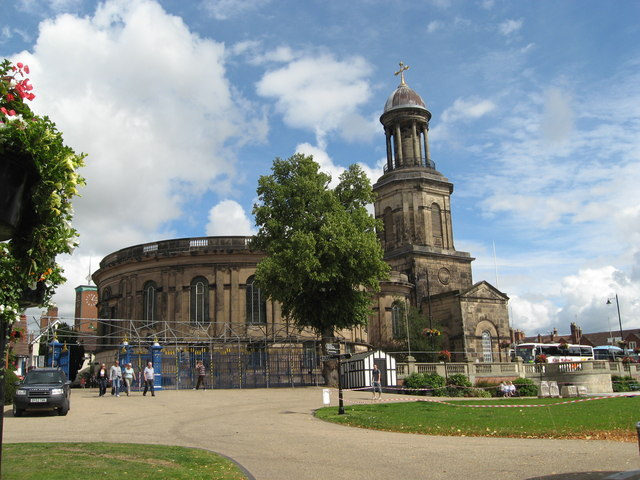 Shrewsbury - St Chad's Church, near to Shrewsbury, Shropshire, Great Britain.